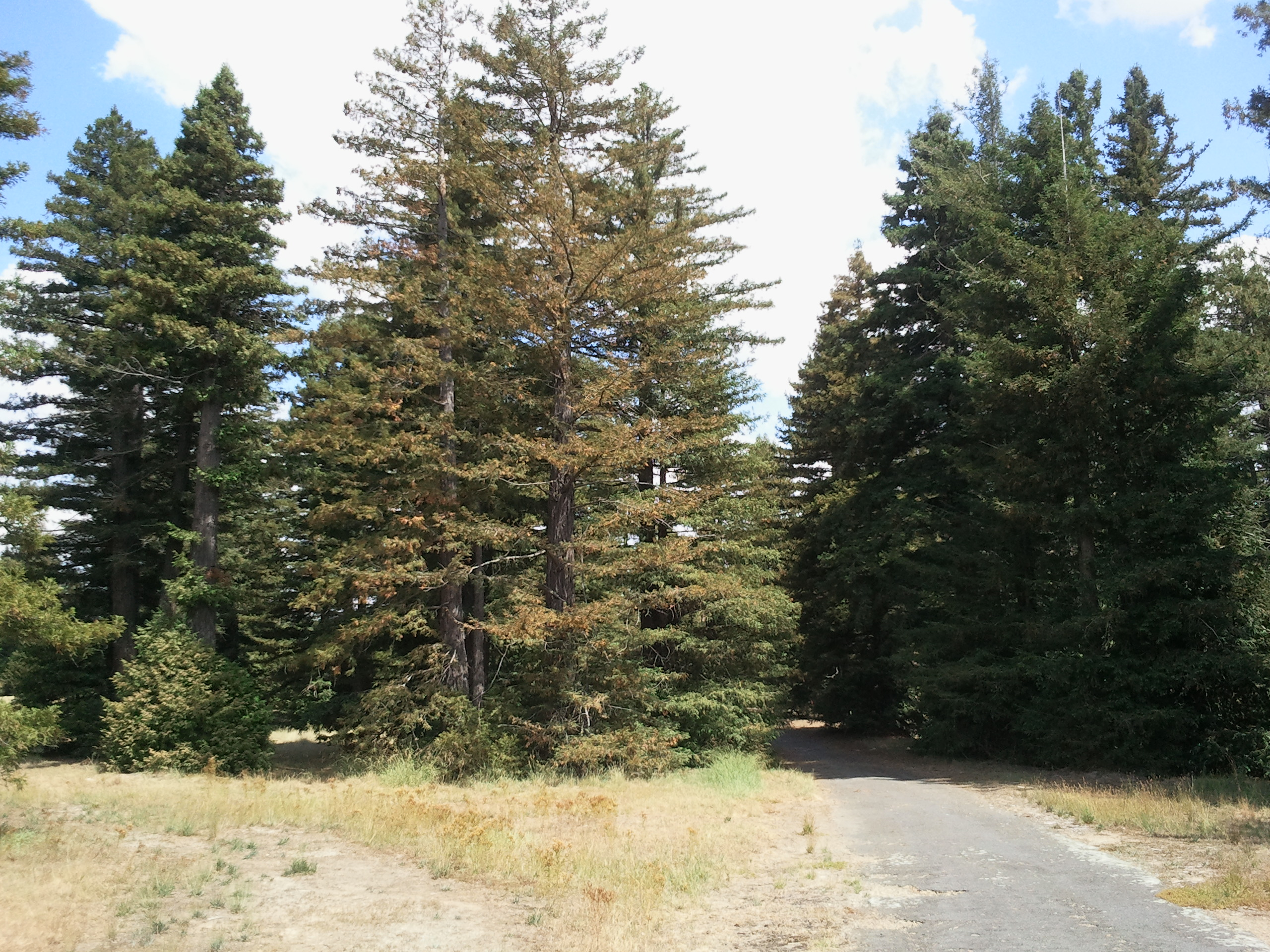 Forest of Coast Redwood Sequoia sempervirens, planted in 1918, Canberra, Capital city of Australia. Created 1918, by Walter Burley Griffin and ACT arborist Thomas Charles Weston.